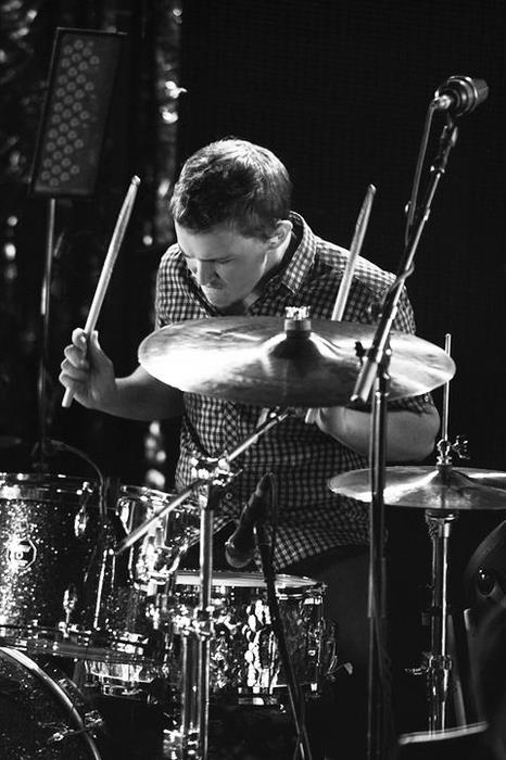 Mike Byrne straight killing his kit in 2011.